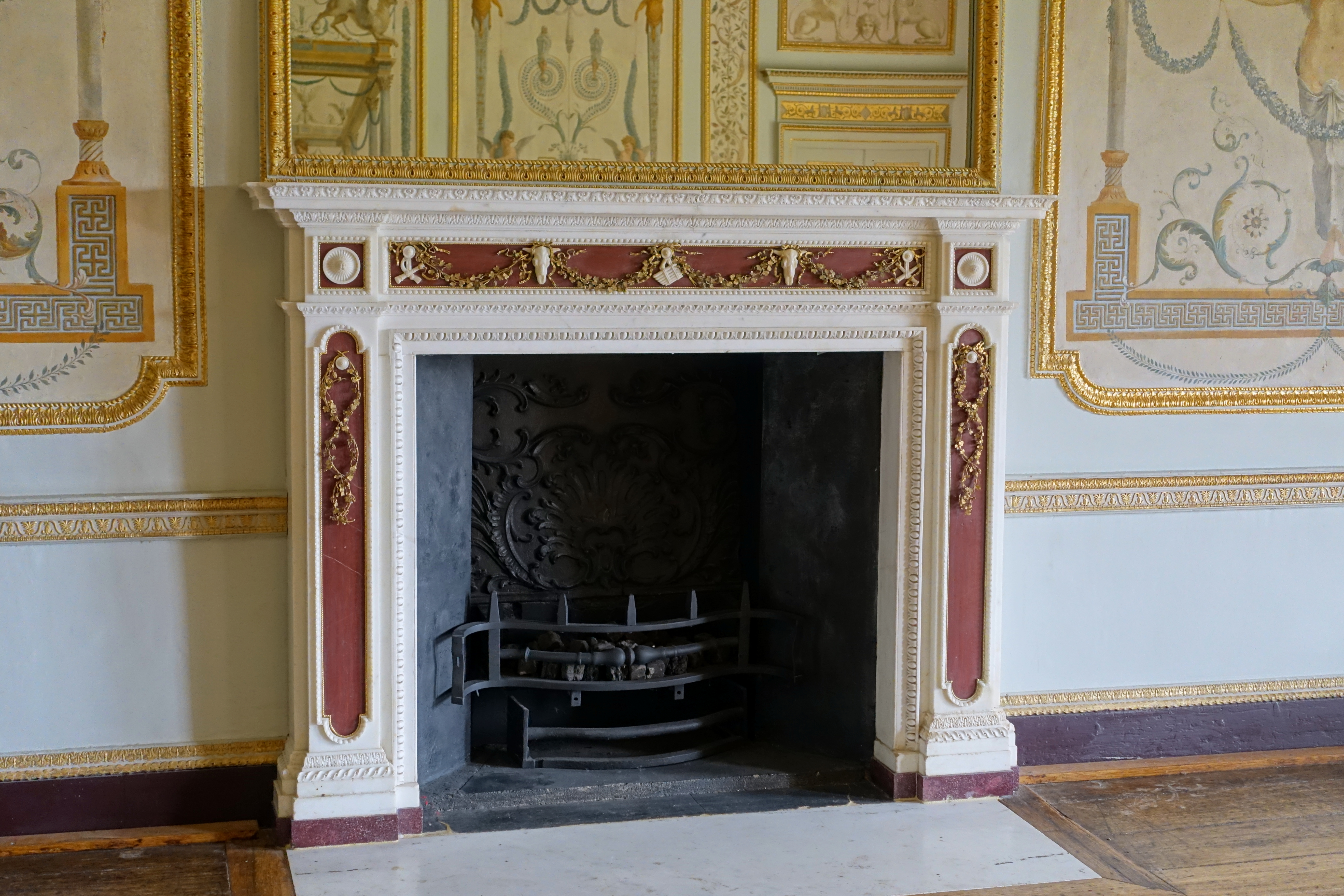 Music Room - Stowe House - Buckinghamshire, England.